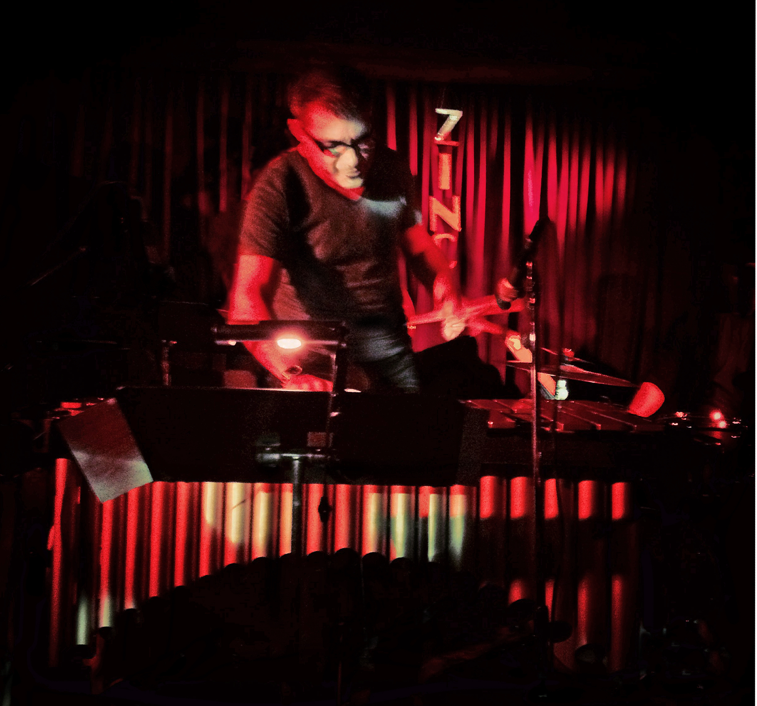 Christos Rafalides playing Vibraphone at the Zinc Bar